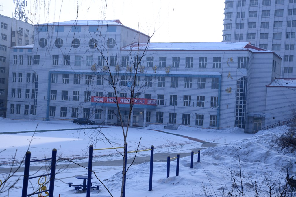 Shaw Memory Campaign